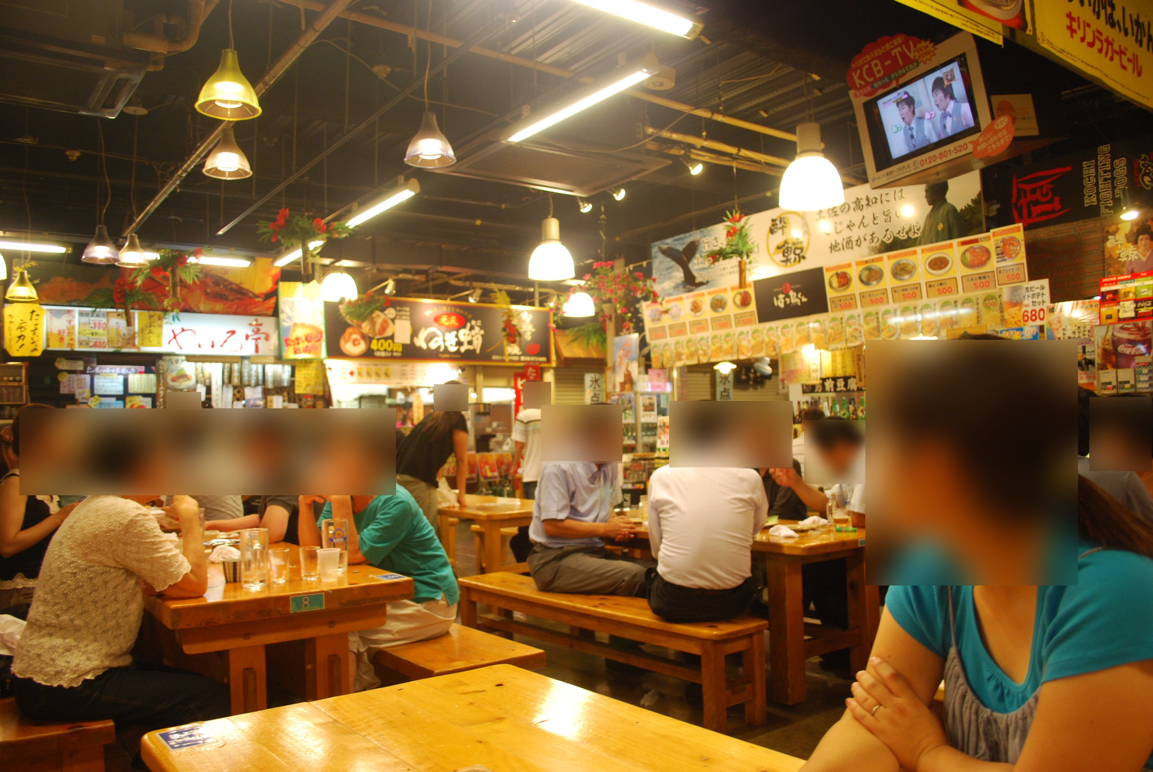 Hirome-Ichiba,Kochi-city,Japan